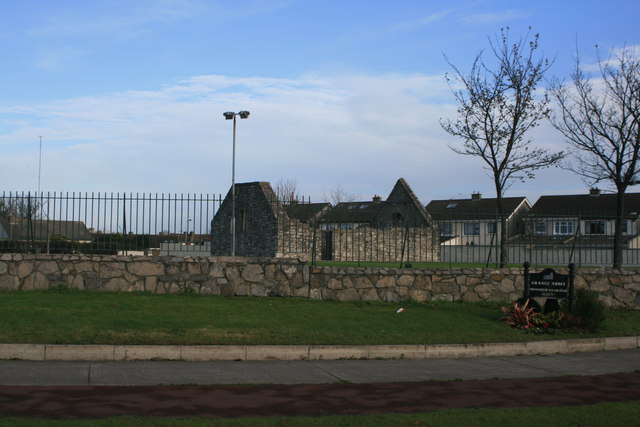 Grange Abbey, Grange Road, Donaghmede, Co. Dublin.